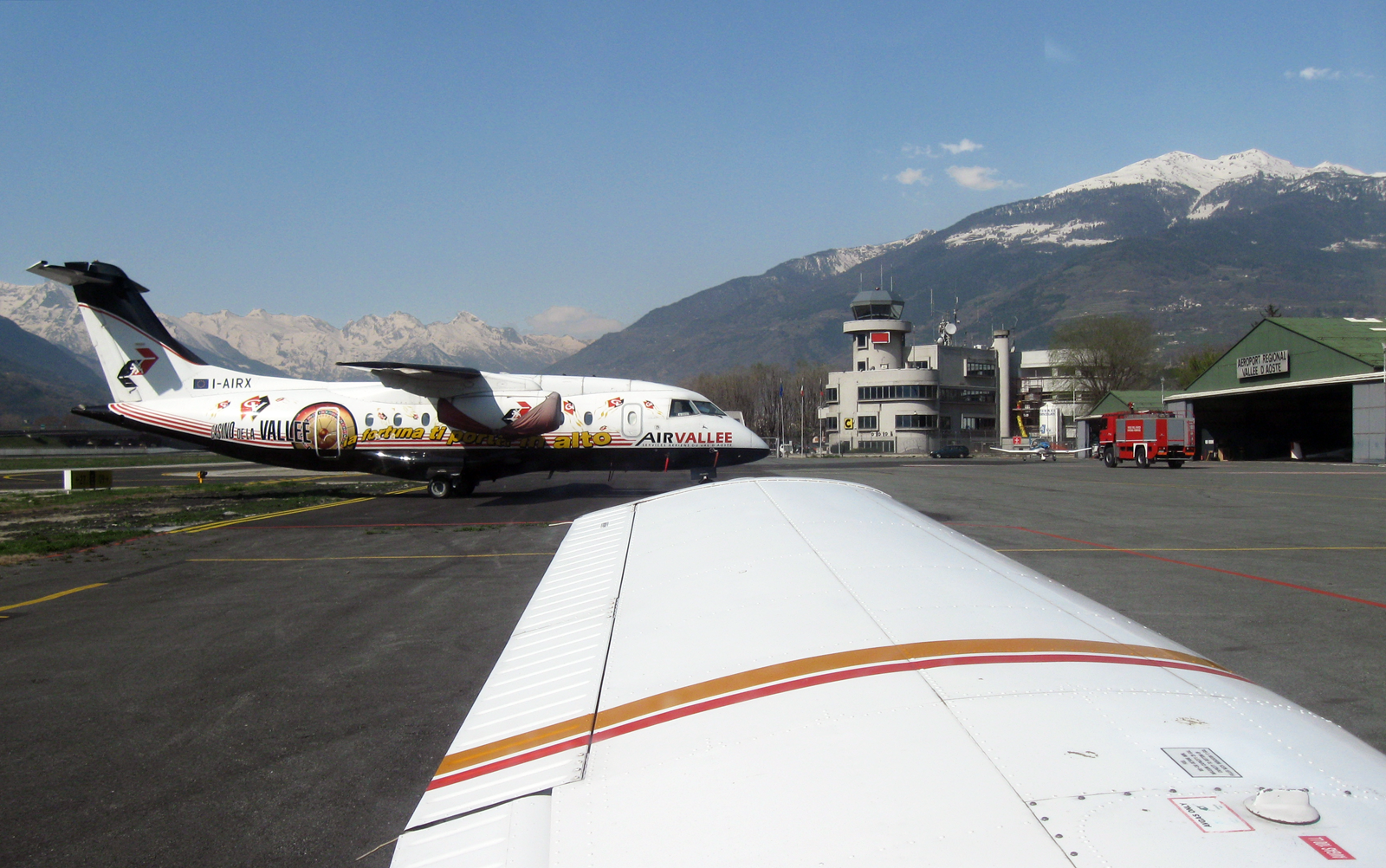 Picture of the Aosta Airport with an Air Vallée's Dornier 328 in the foreground.